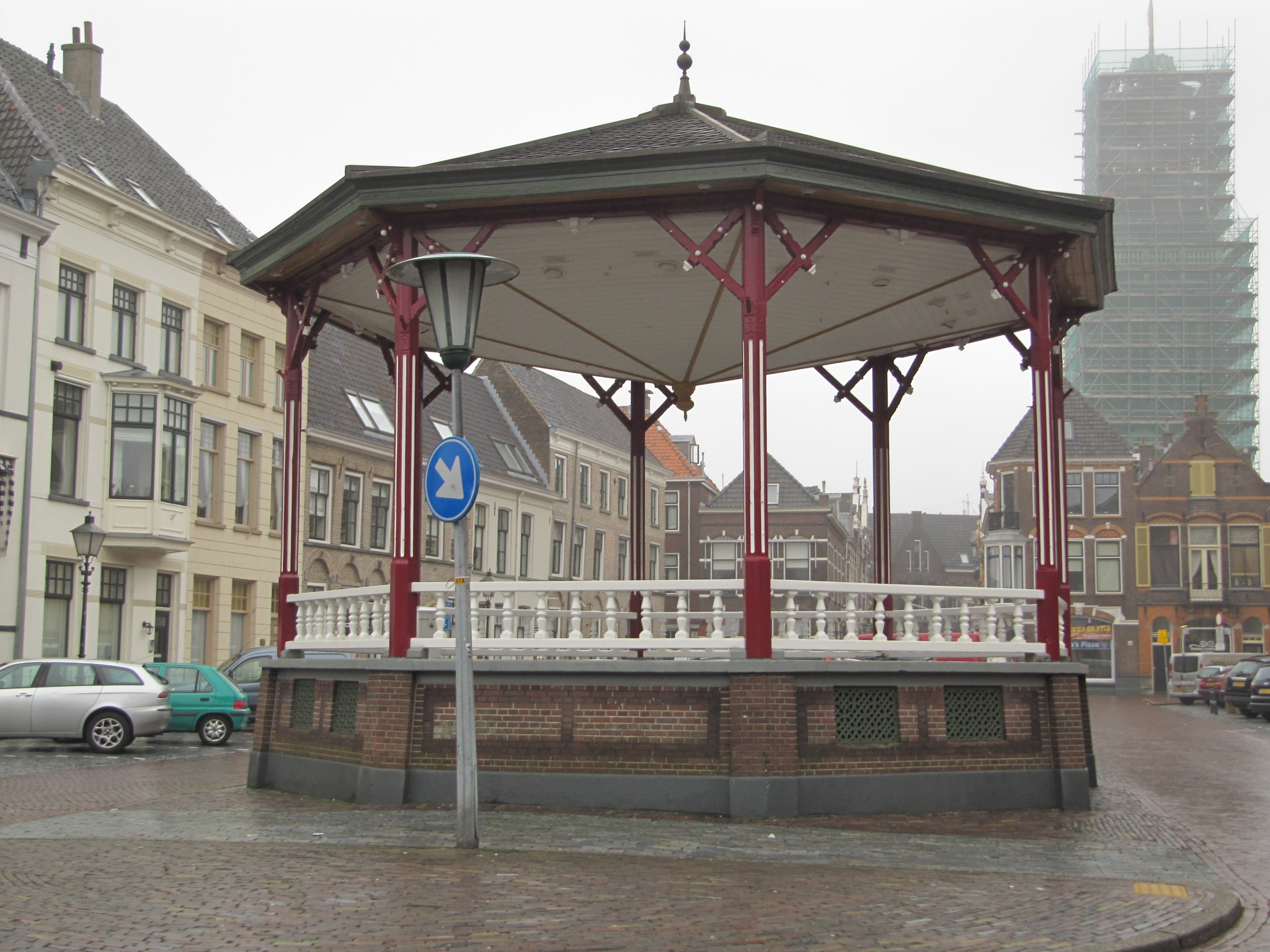 Kampen - Nieuwe Markt